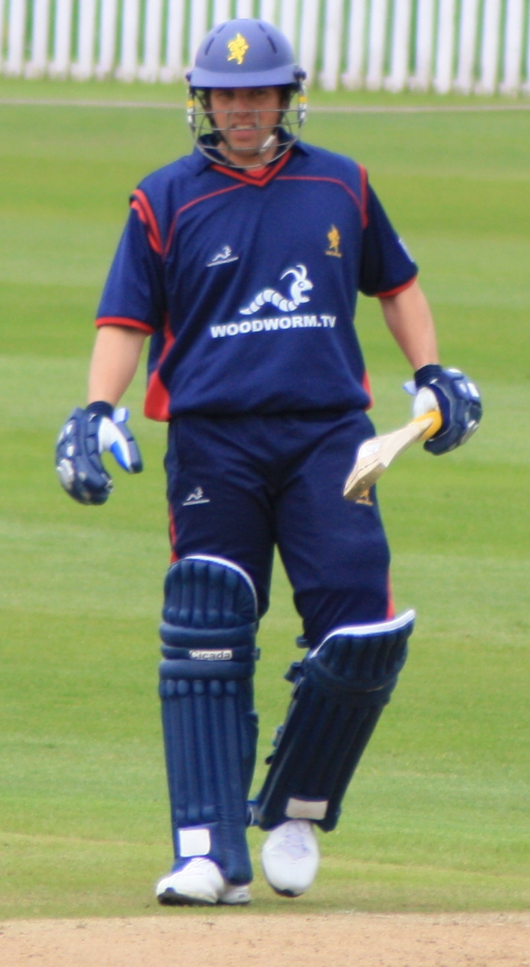 Wes Durston at the crease during the match between Unicorns and Somerset at the County Ground, Taunton.